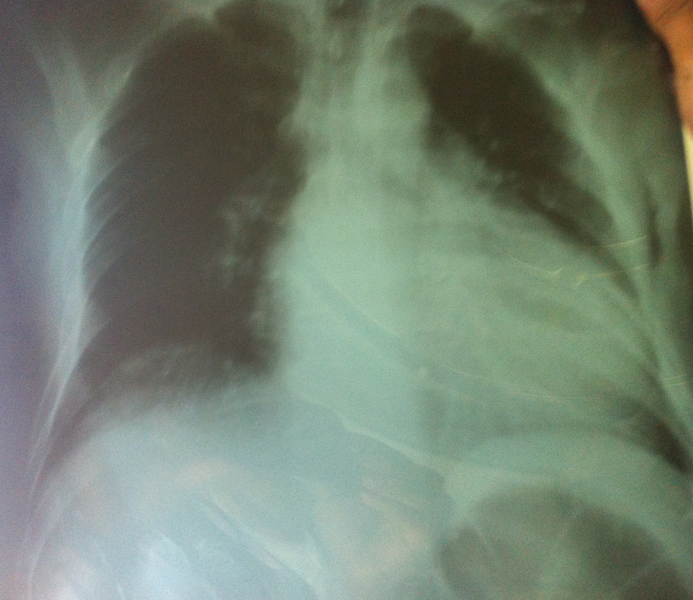 dilated cardiomyopathy